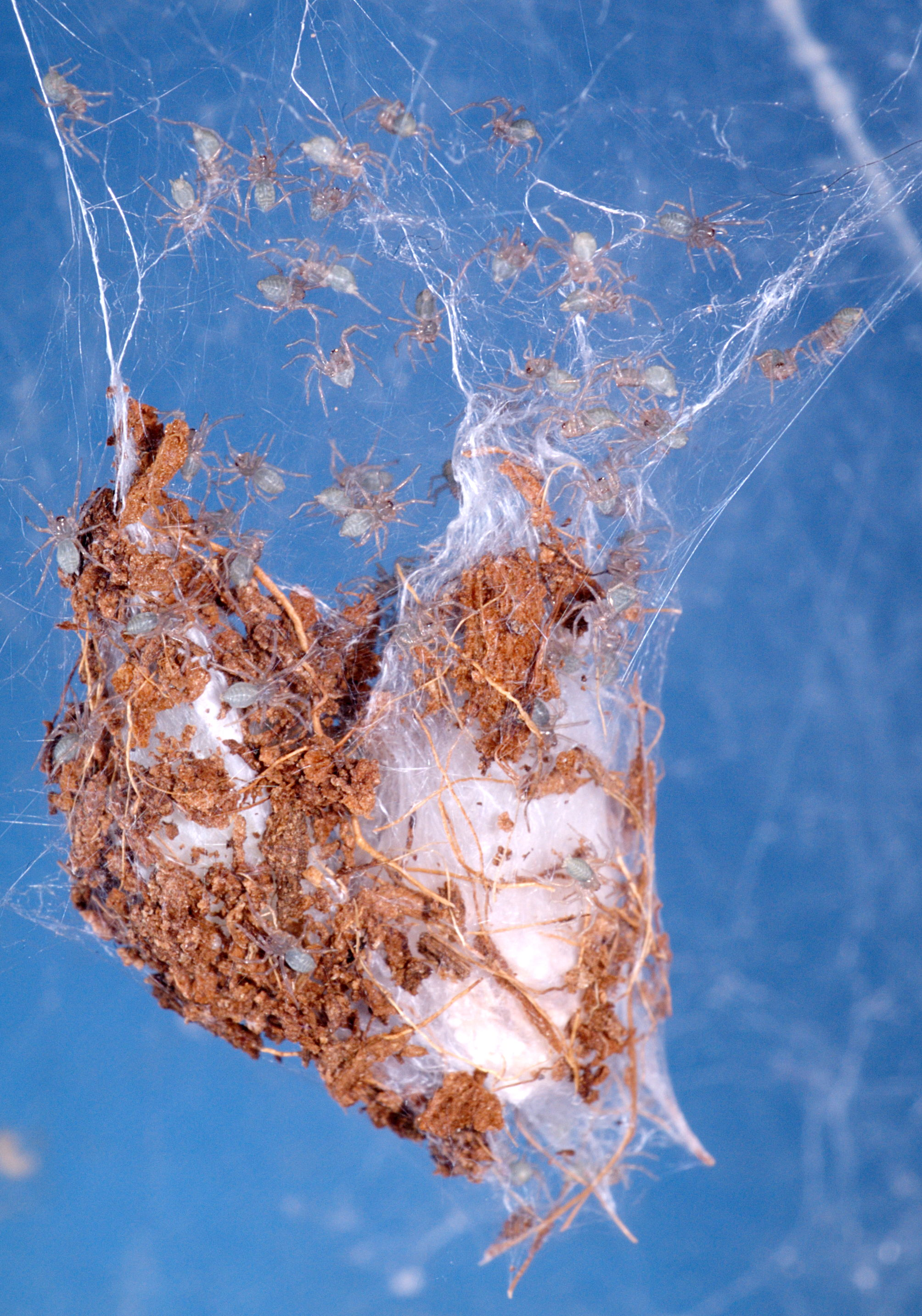 Tegenaria atrica spiderlings, sitting in the vicinity of their egg sac, from Cologne, Germany. Actually there are two egg sacs, and mother spider created a third one soon after this picture was taken :)